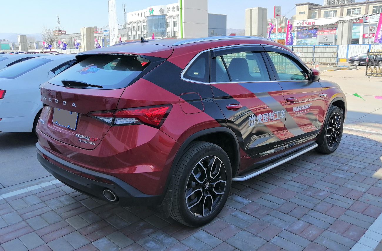 Škoda Kodiaq GT photographed in Hohhot, Inner Mongolia autonomous region, China.